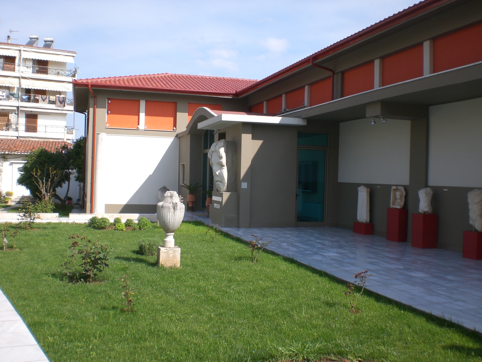 Entrance to Veria Archaelogical Museum